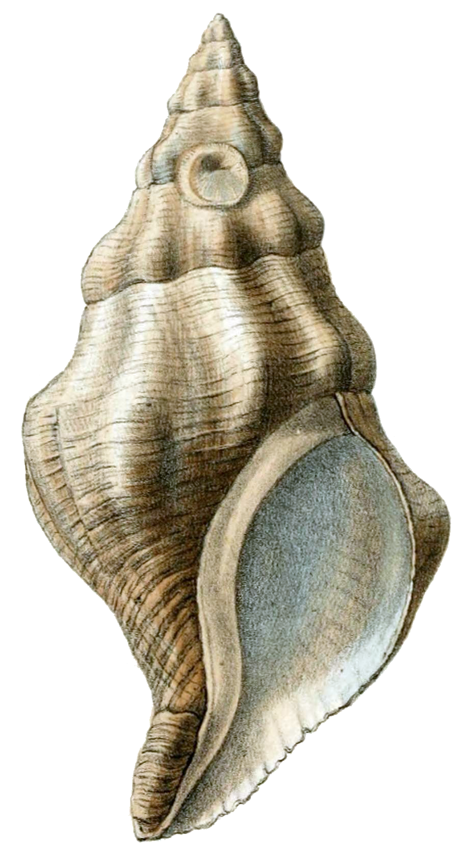 Drawing of an apertural view of a shell of Kelletia kelletii.